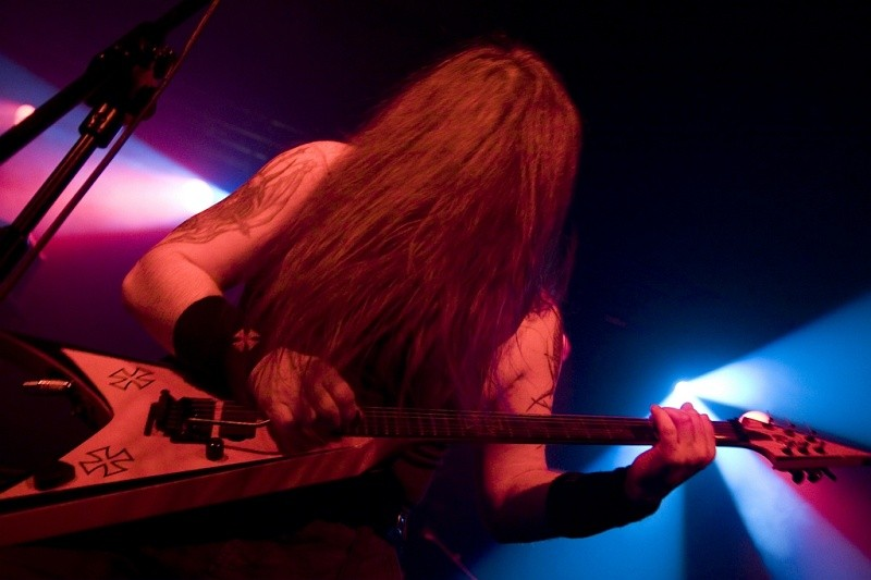 Winterfest 2009, Vader, Warszawa, Progresja, 22.01.2009